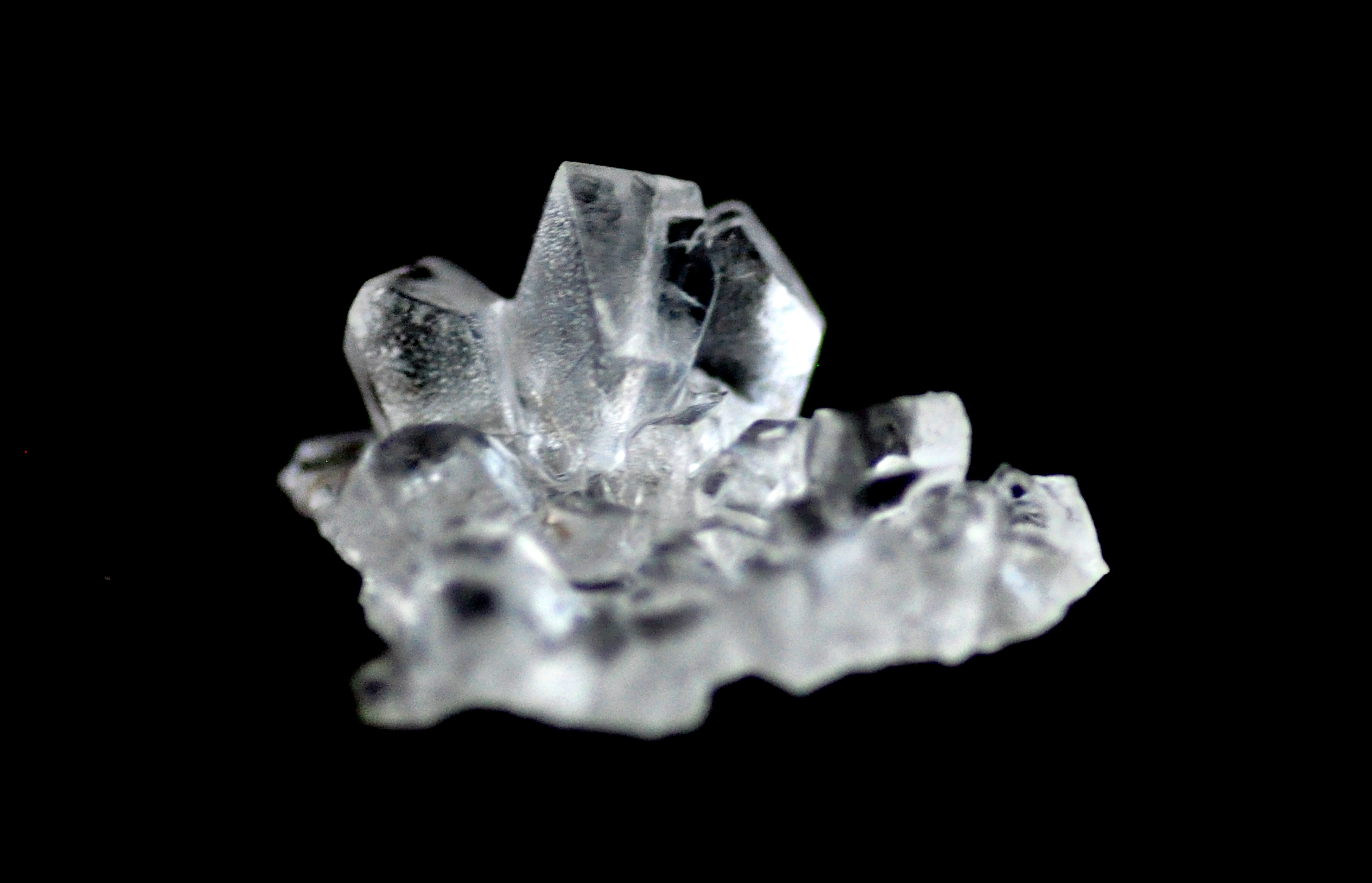 Fully grown table sugar (sucrose) crystals. The macroscopic shape reveals the internal crystal lattice. Size is ~1cm.